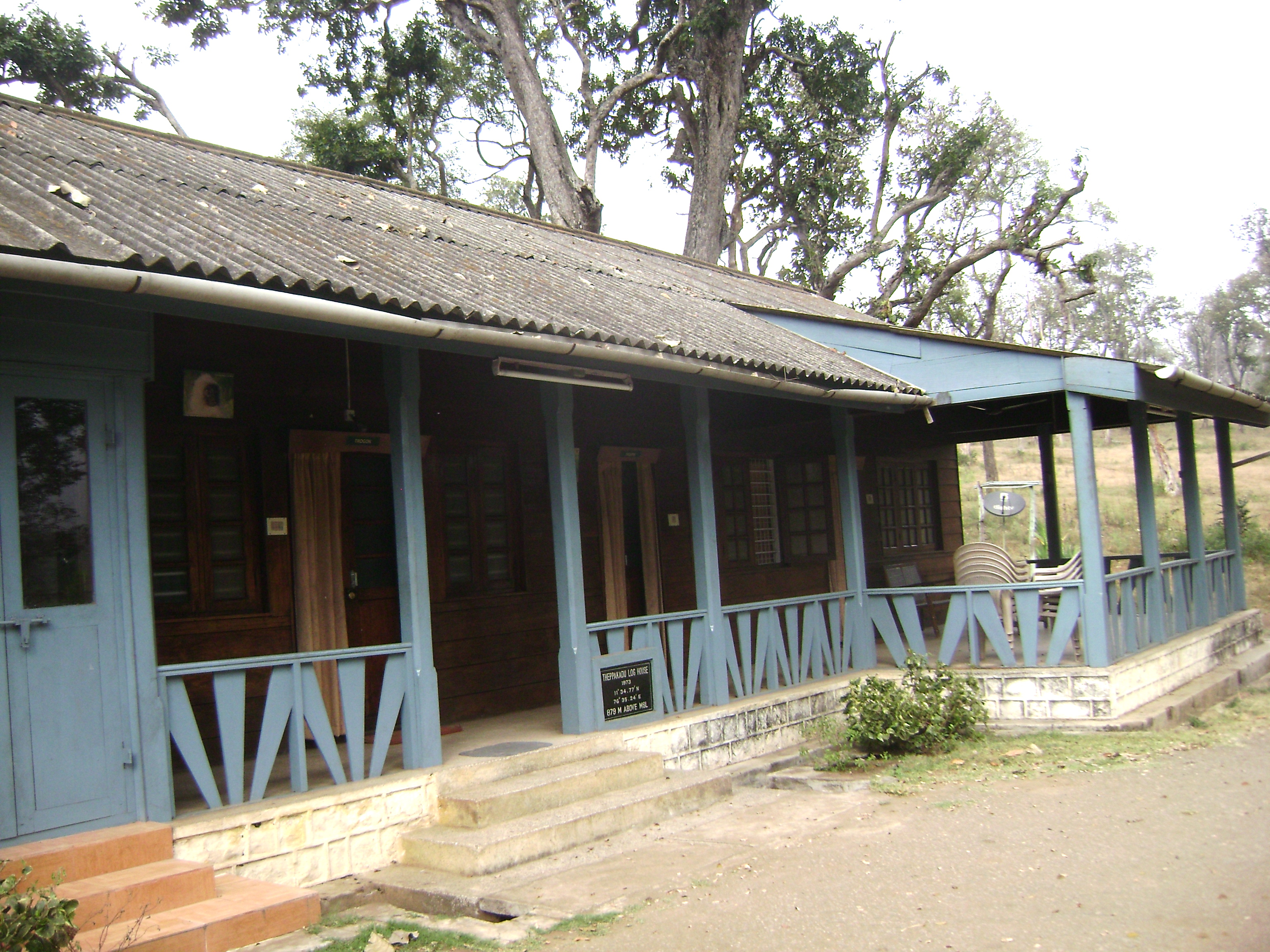 Forest rest house at Mudumalai National Park, Theppakadu Log House